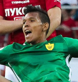 Andrés Ponce